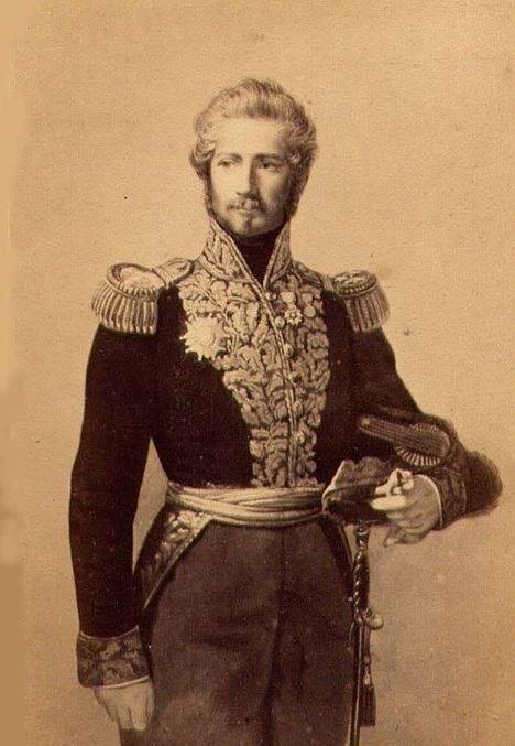 General Michel Ordener (son)